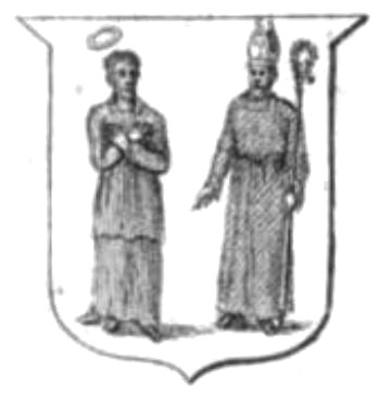 arms of scottish diocese (Ross)